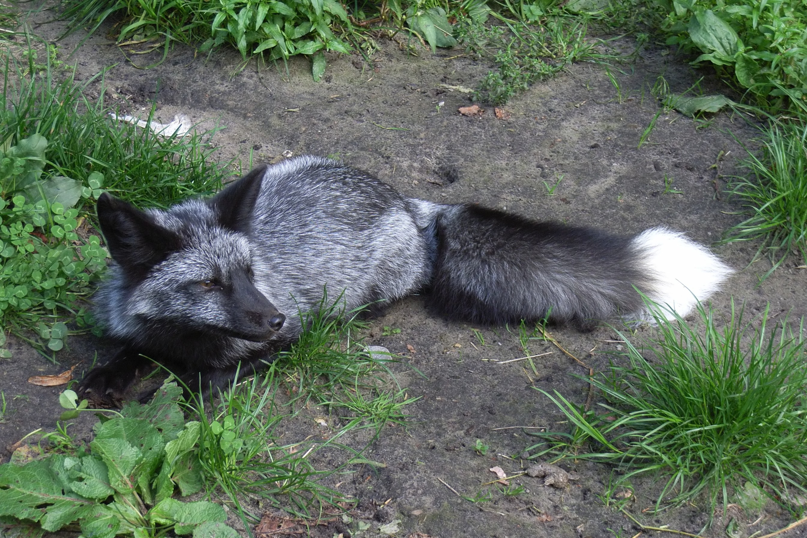 Silver fox